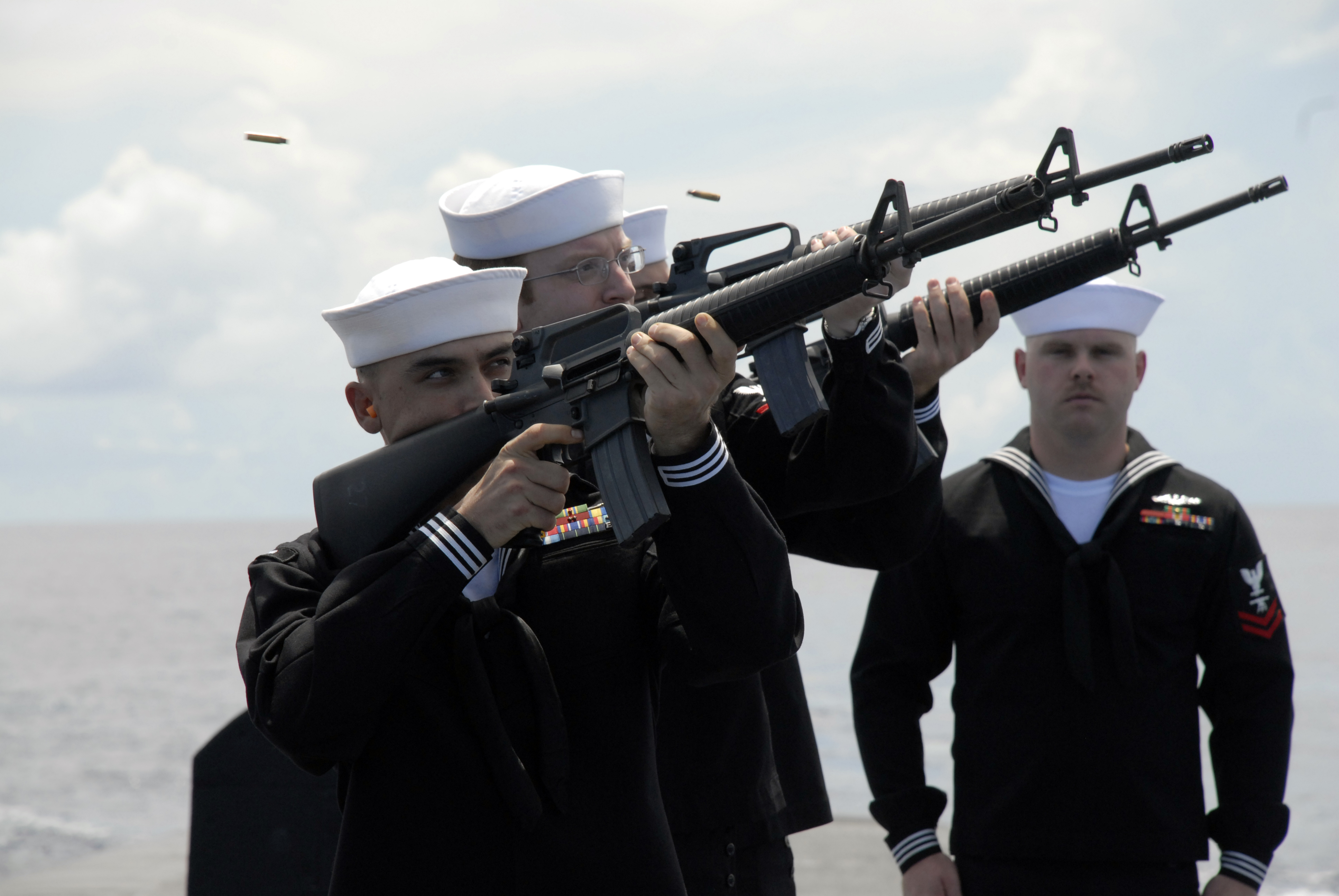 The firing detail aboard the guided-missile submarine USS Ohio (SSGN 726) fires three volleys as part of a burial-at-sea for World War II Boatswain's Mate 2nd Class Eugene Stanley Morgan, one of the 316 survivors of the sinking of the World War II cruiser USS Indianapolis (CA 35) in the Philippine Sea July 30, 1945. Morgan died June 18, 2008.